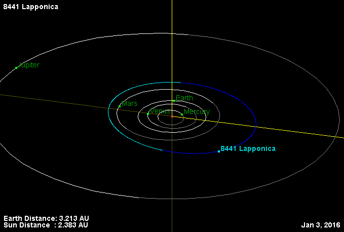 Orbit of asteroid 8441 Lapponica and his location in Solar system